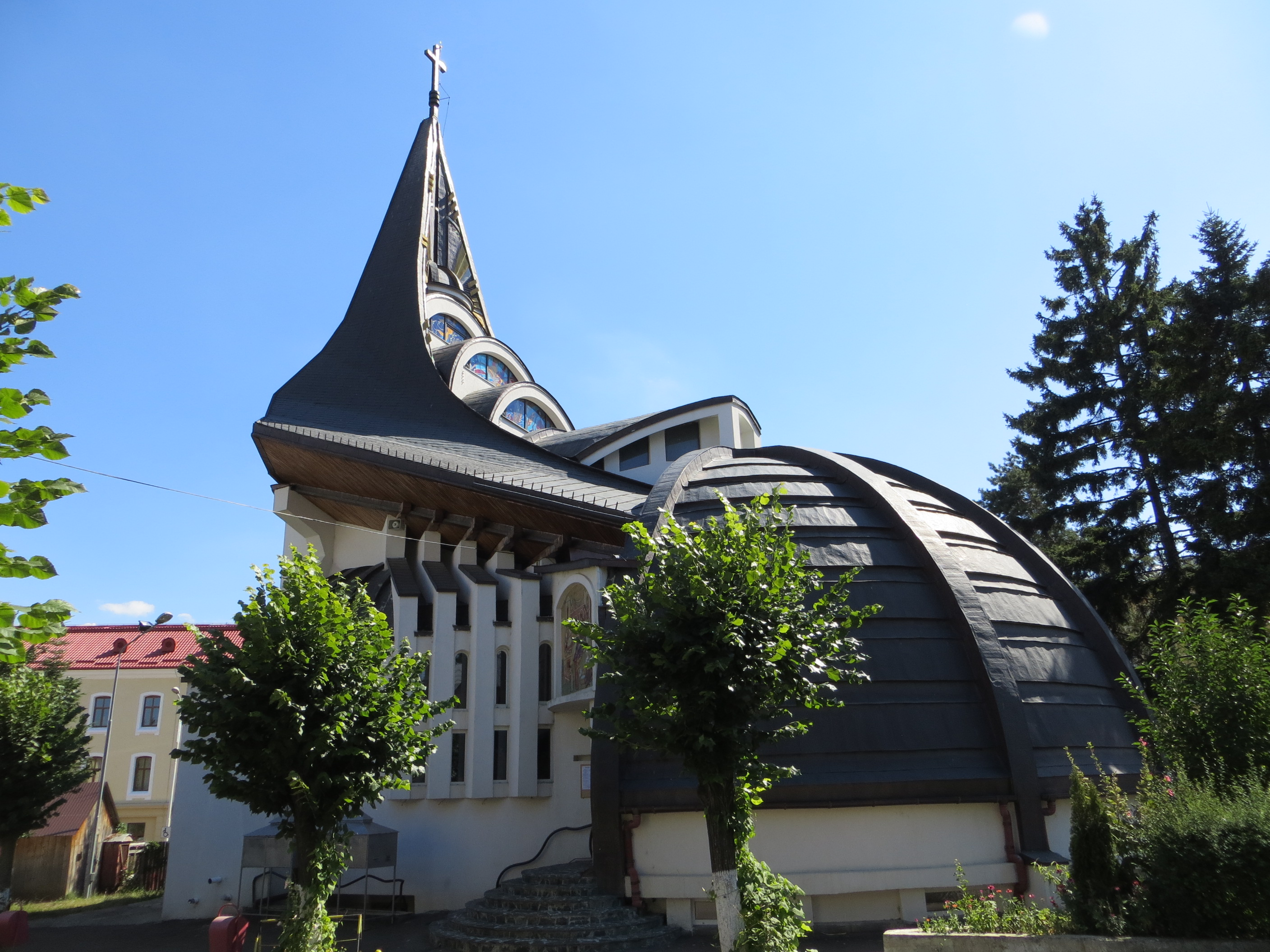 Church of the Birth of Virgin Mary-In Memoriam in Suceava.